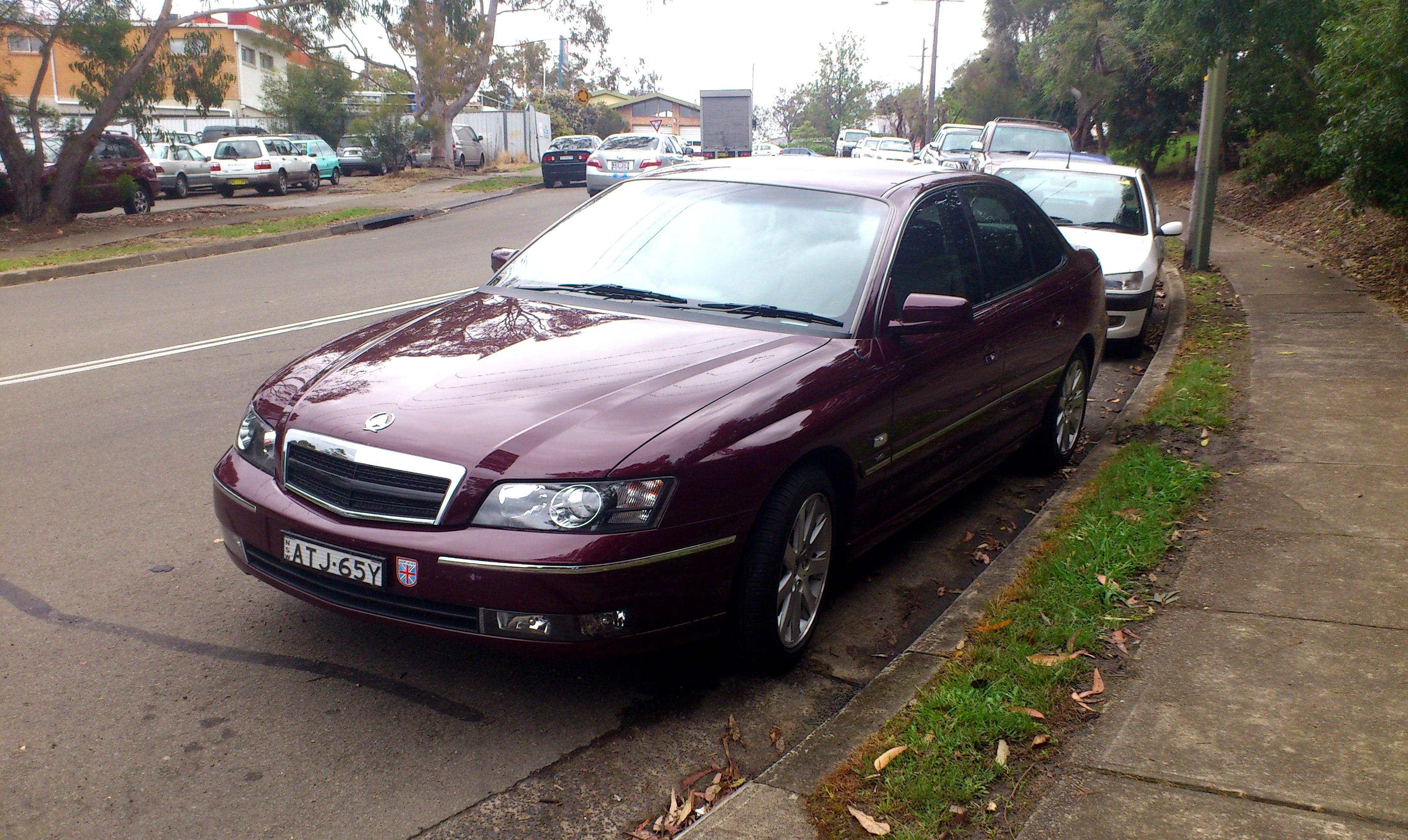 Don't actually see that many Caprice's with the plain old V6, most buyers who shelled out for a top of the line Caprice went for the 5.7 LS1 V8 or at least the supercharged V6. Quite a nice colour though.